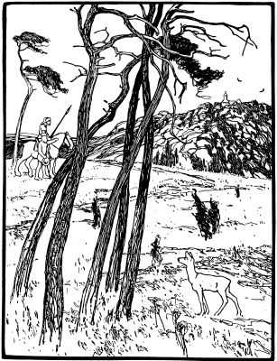 Illustration by Otto Ubbelohde to the fairy tale Sleeping Beauty.